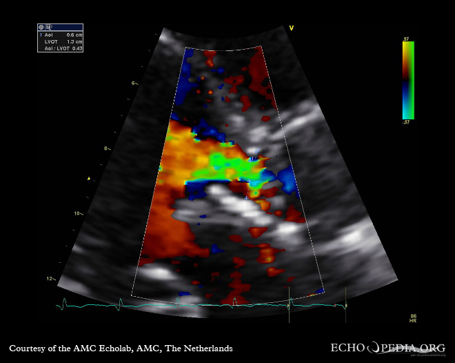 Title: Aortic valve endocarditis with vegetation Case Presentation: This patient had endocarditis with an aortic valve vegetation Description: Aortic valve regurgitation jet